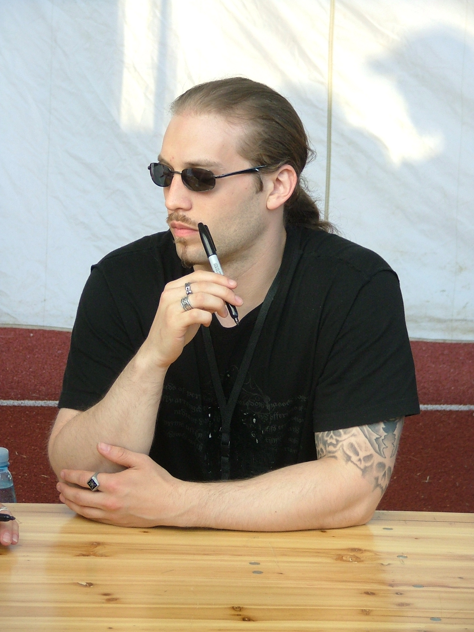 Charles Hedger of english metal band Cradle of Filth in Kuopio at Rockcock-musicfestival